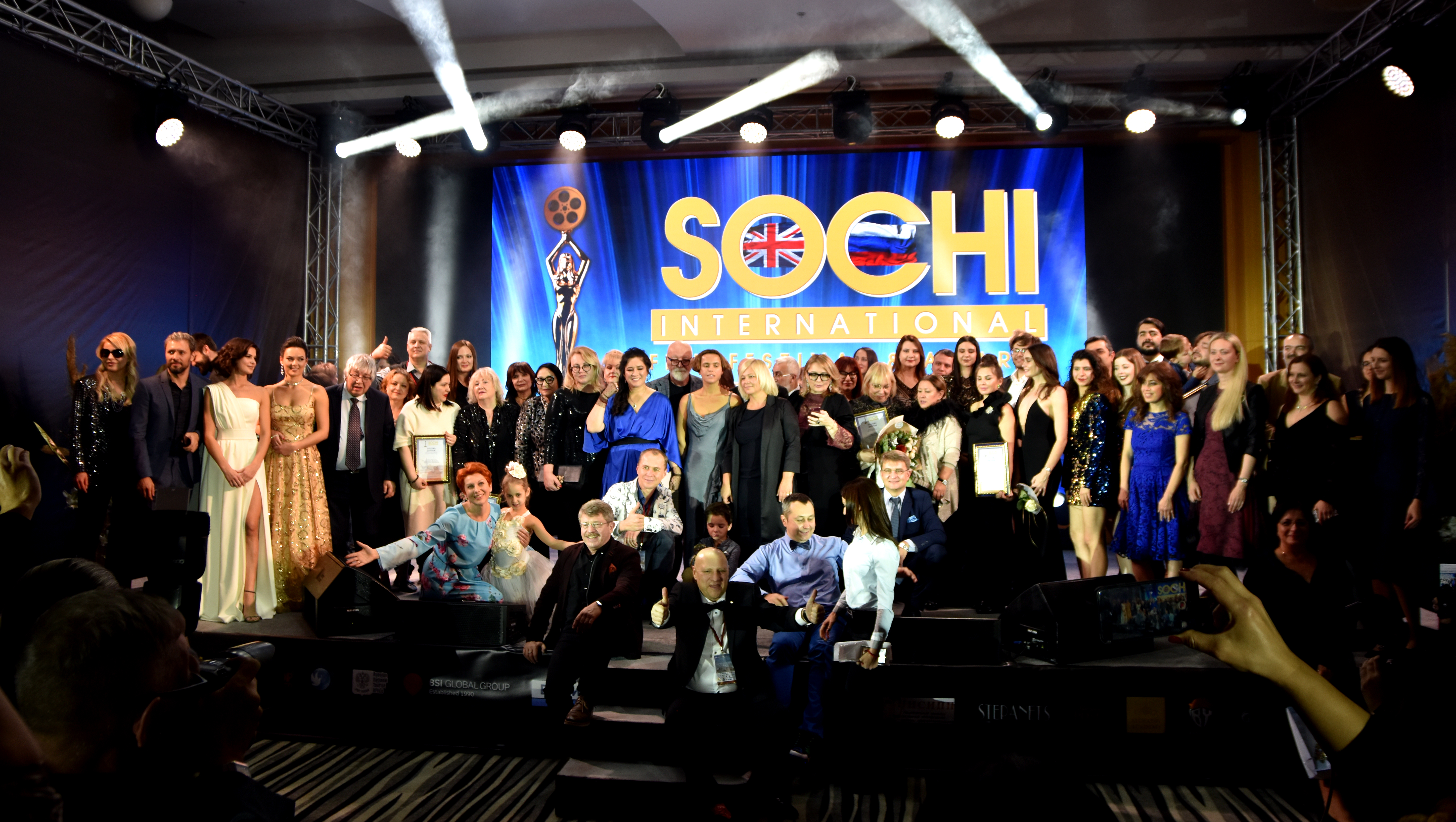 Участники и гости III Сочинского международного кинофестиваля и кинопремий на церемонии закрытия кинофестиваля